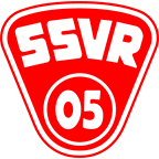 Logo of SSV Reutlingen 05 from 1938 to 1946